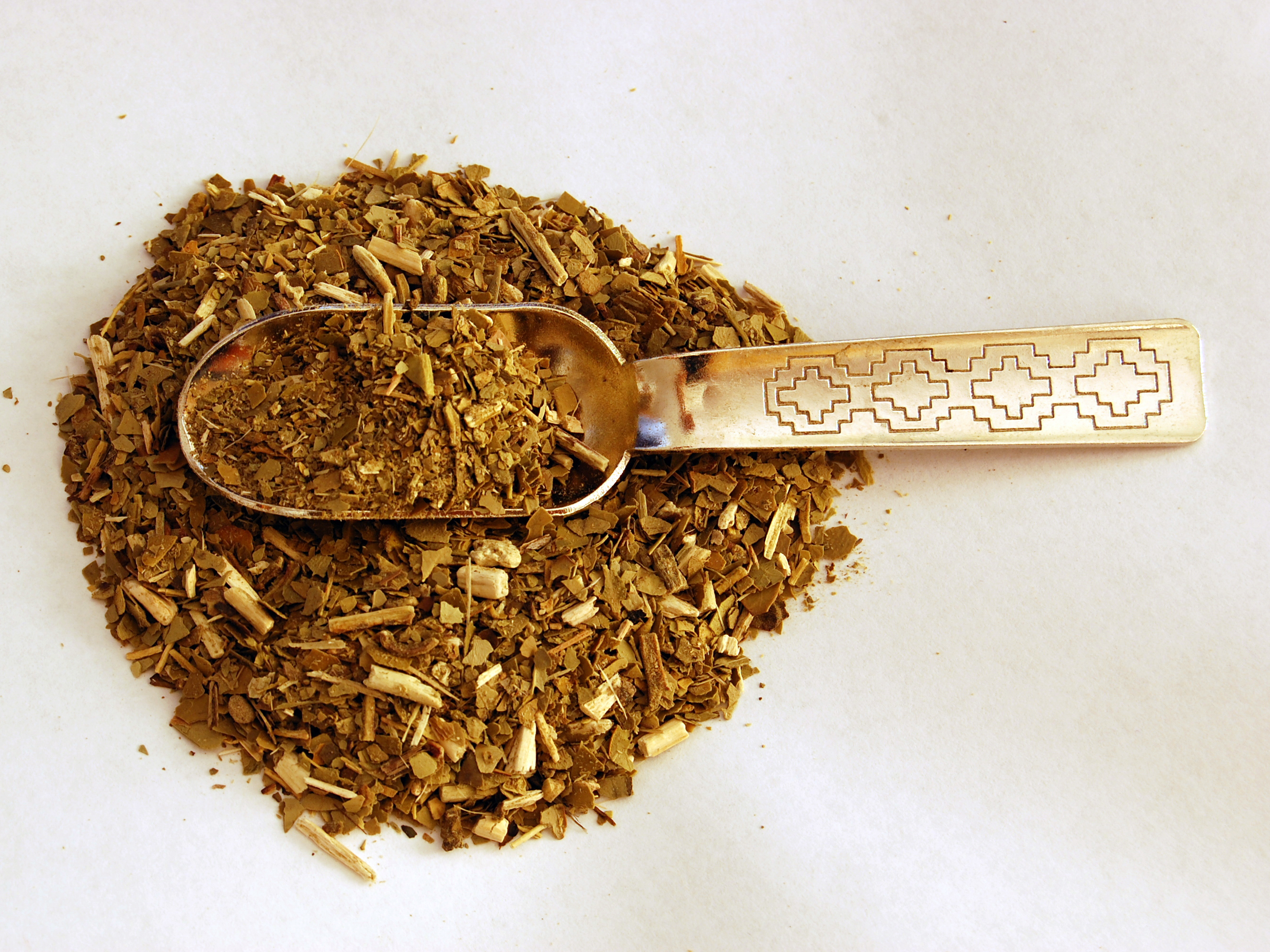 Yerba mate